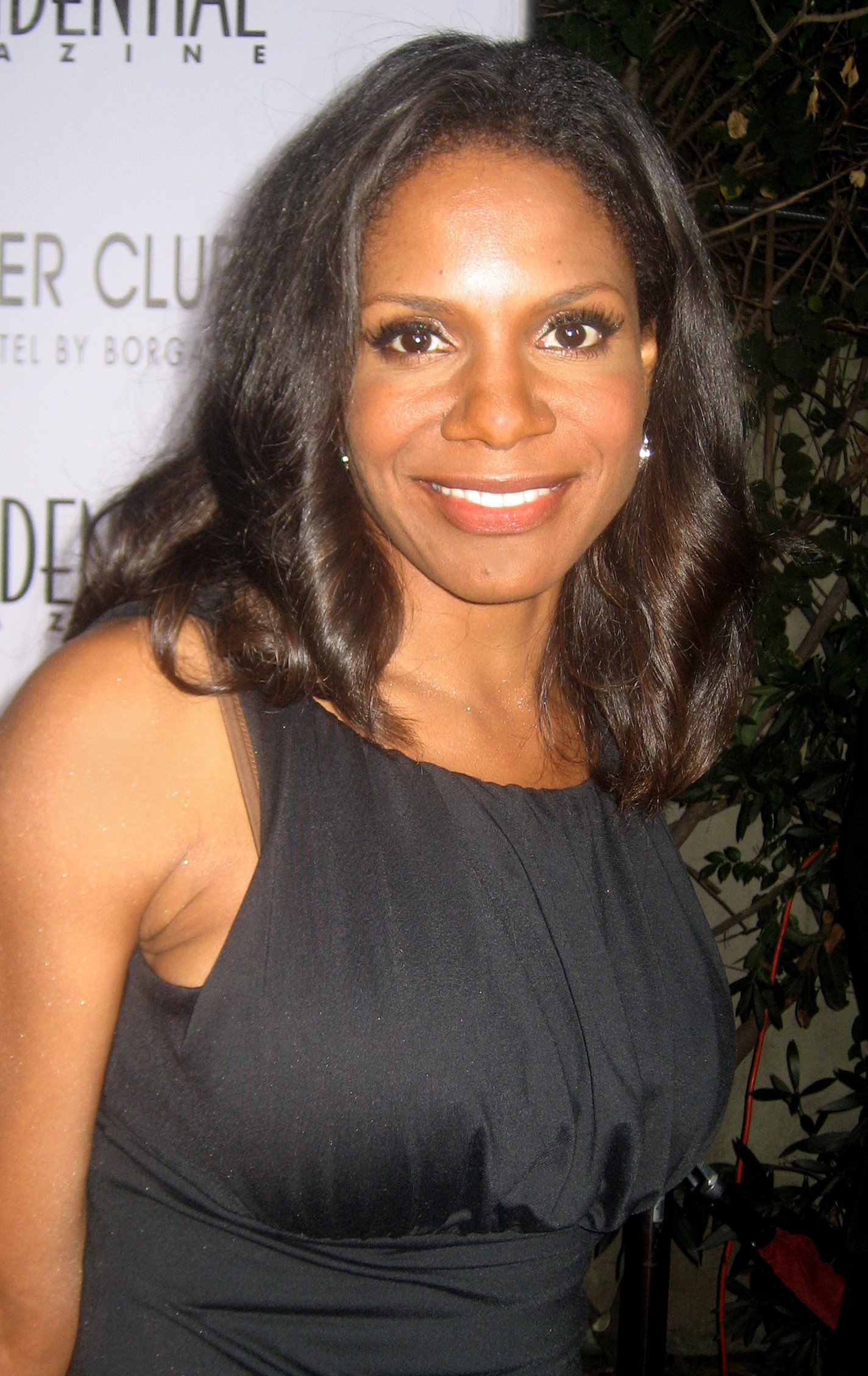 L.A. Confidential/Belvedere/Water Club/Sapporo Emmy Party